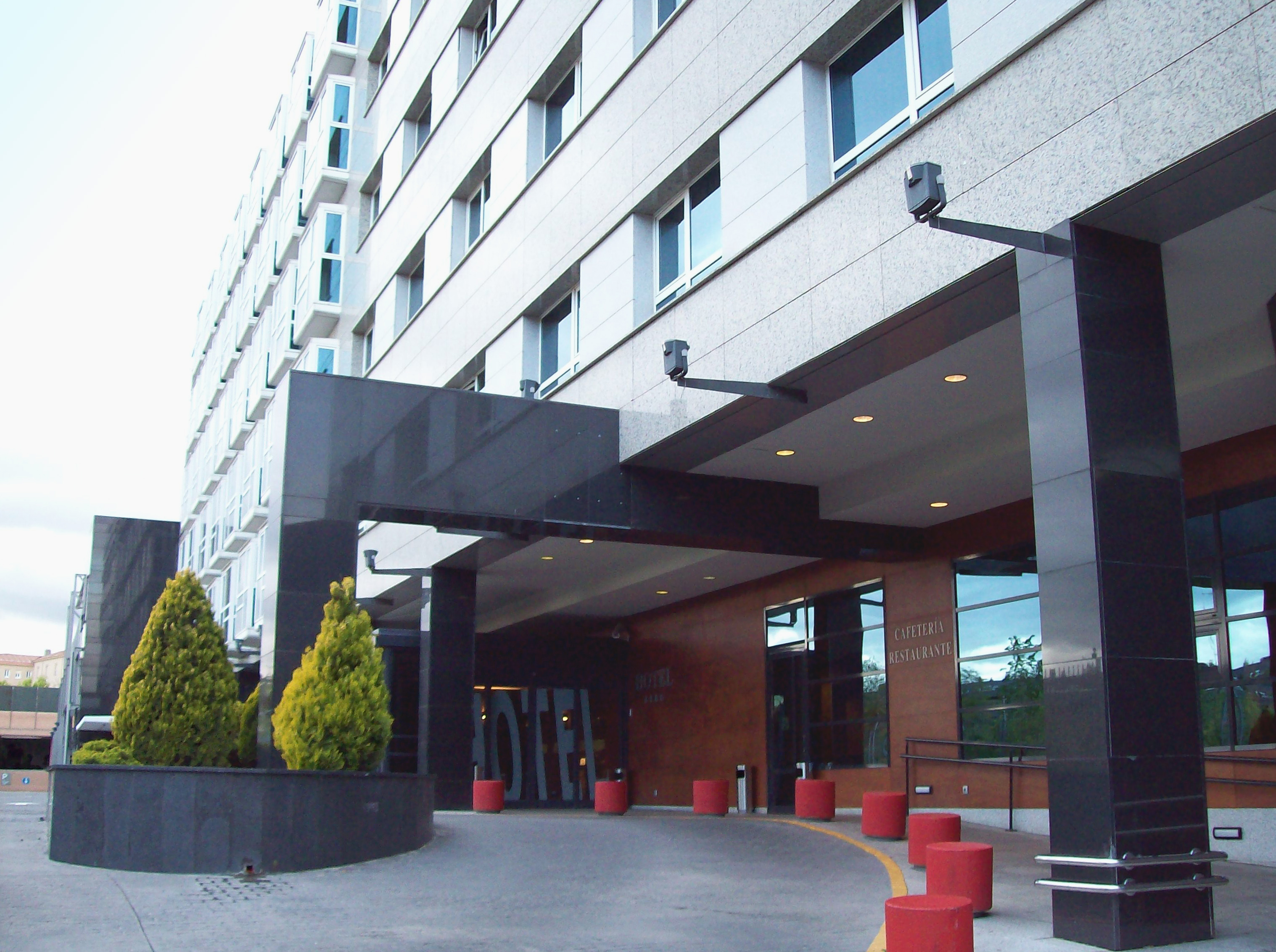 Entrance of Hotel Pío XII in Madrid (Spain).